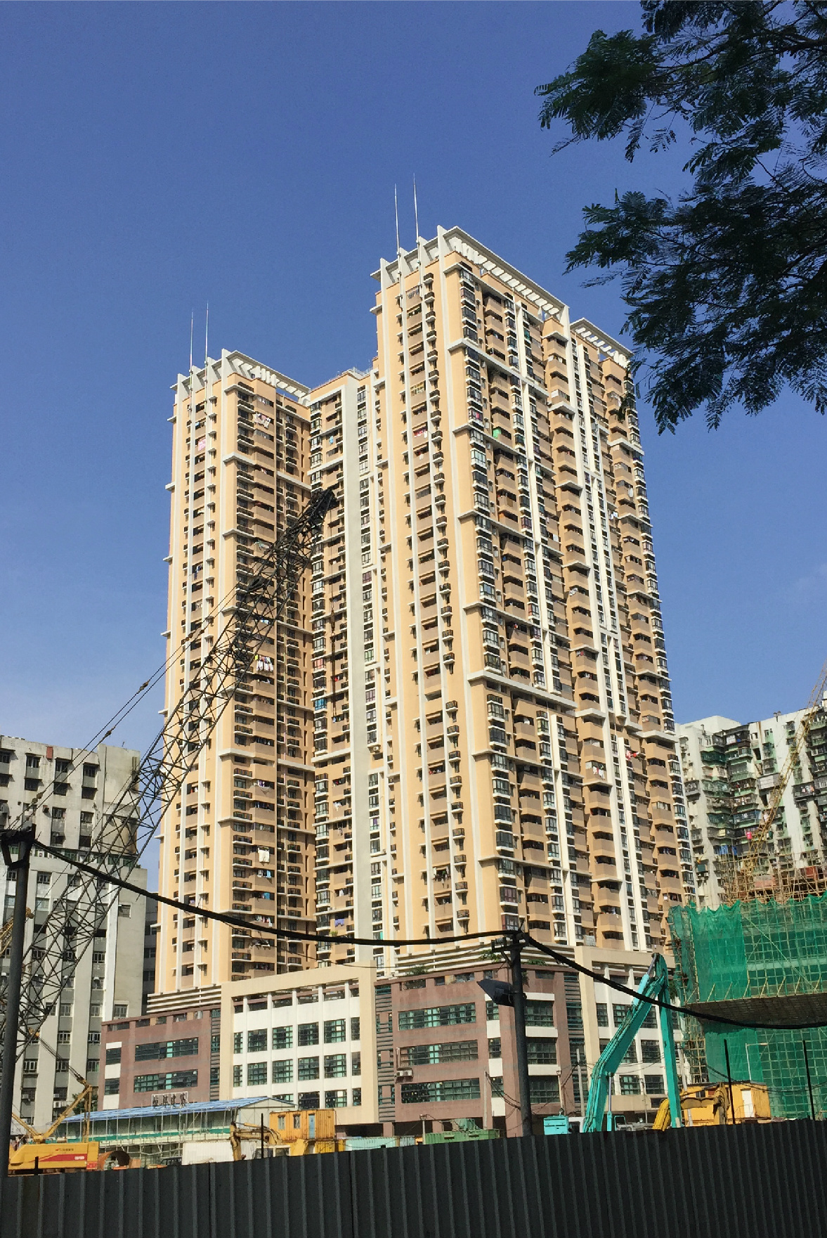 Edificio Mong Sin Exterior View